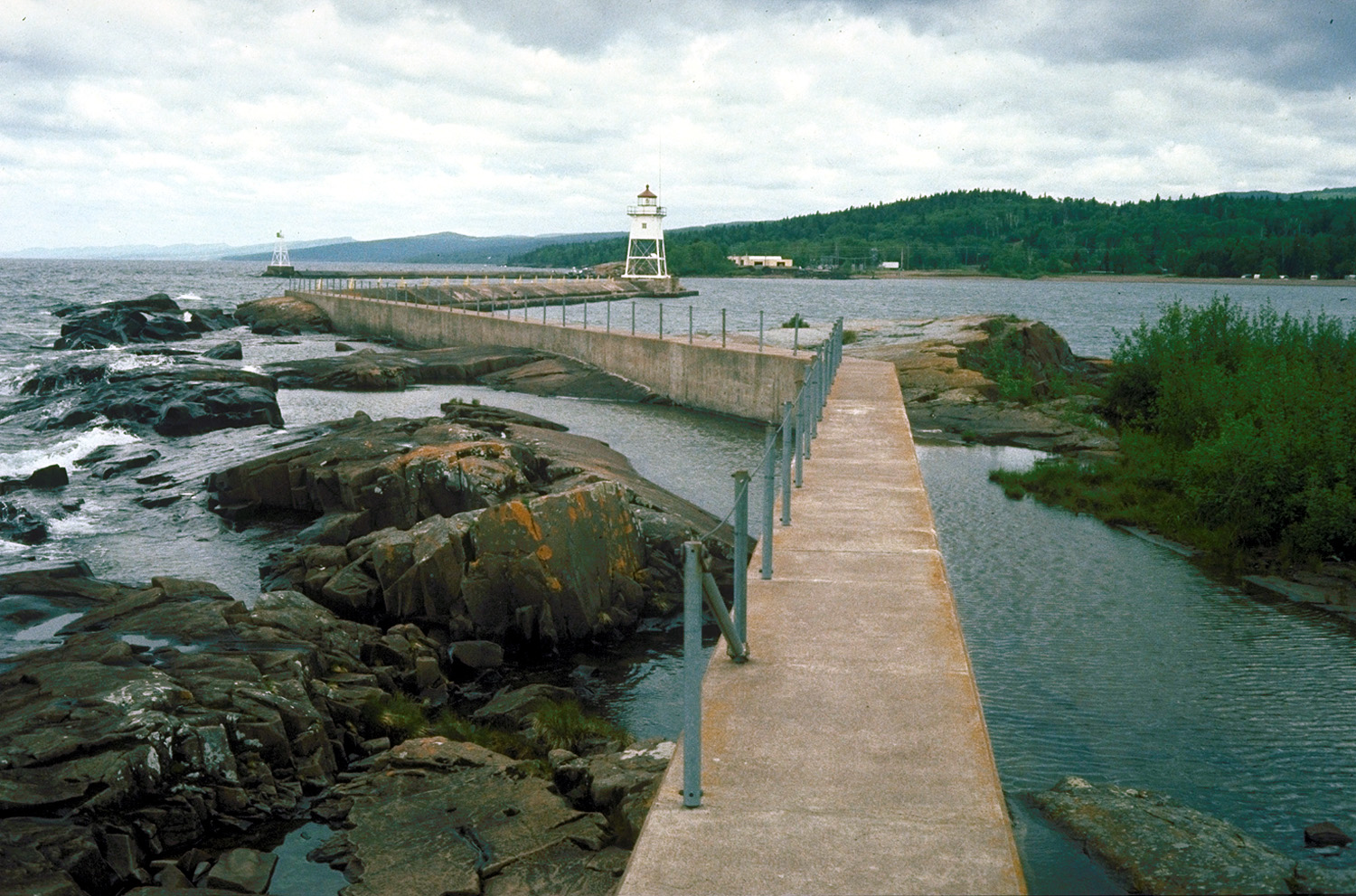 The entrance to the harbor at Grand Marais, Cook County, Minnesota, USA, on the north shore of Lake Superior. The U.S. Army Corps of Engineers constructed the breakwater at the harbor.